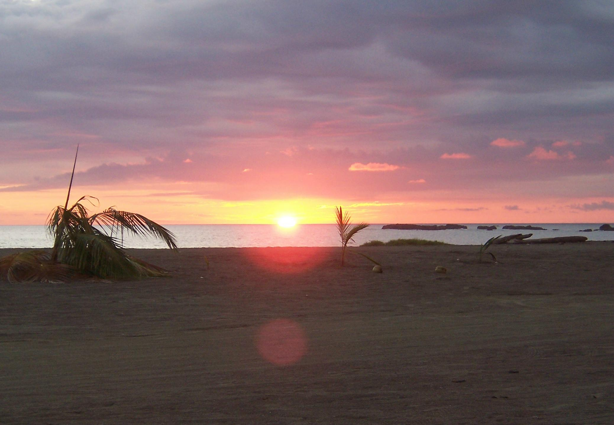 Jacó Bay in Costa Rica, Sunset